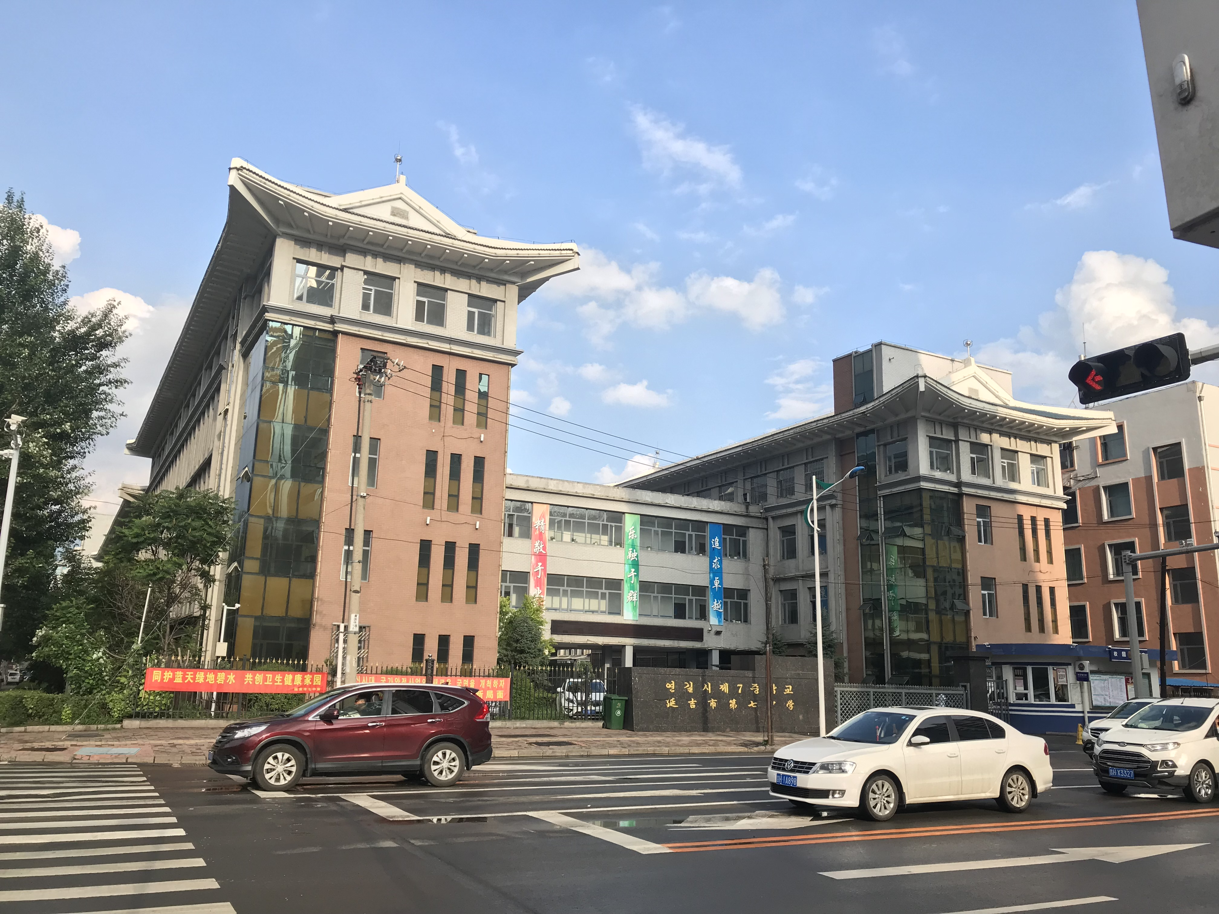 Yanji No.7 Middle School - Gate